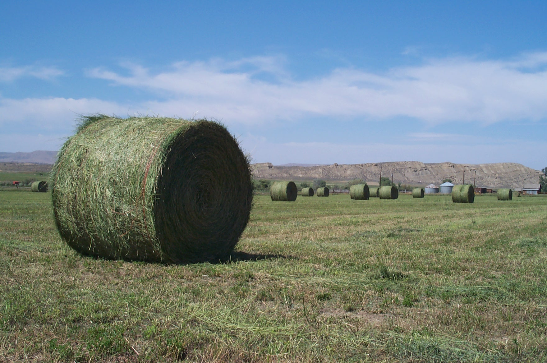 Round hay bales of Alfalfa (Medicago sativa) in a Montana field, USA